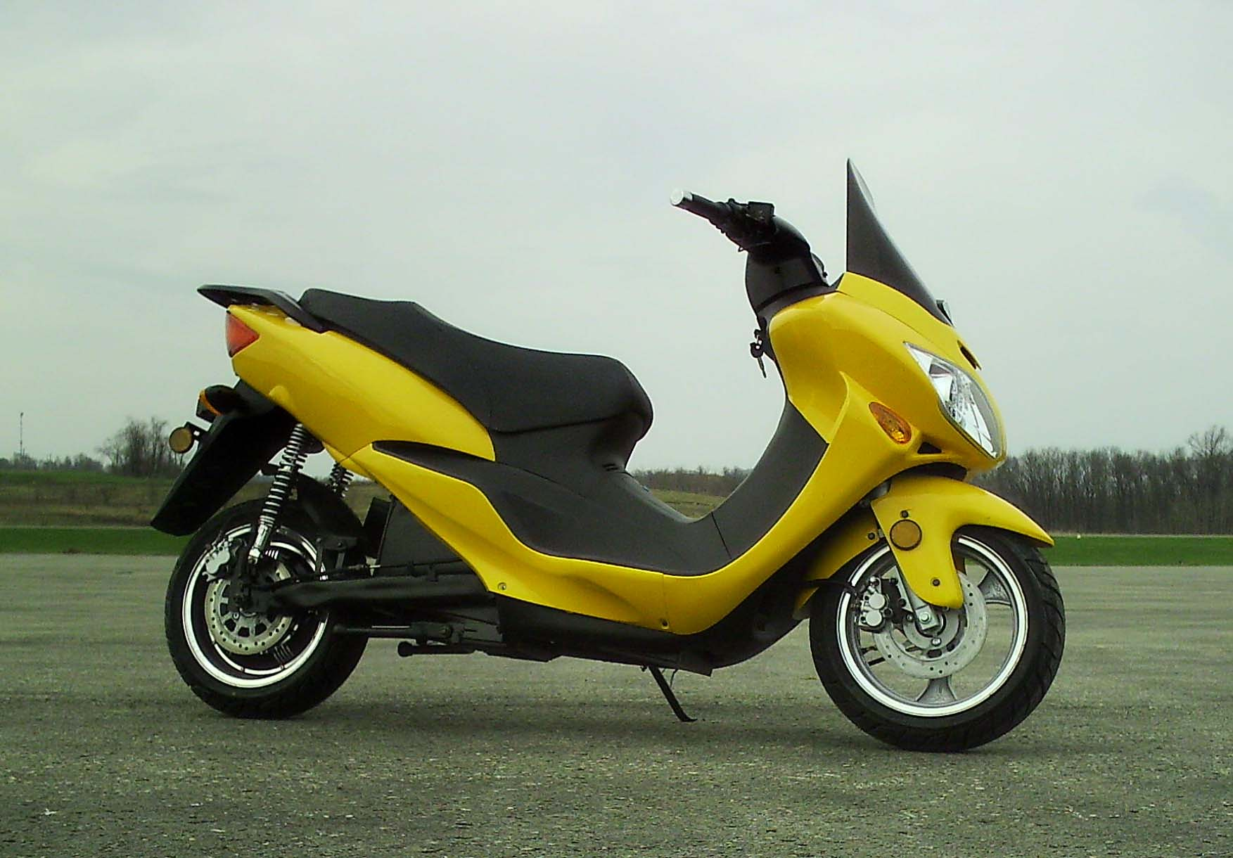 ZEV 7000 in screaming yellow at the Waynesburg PA airport